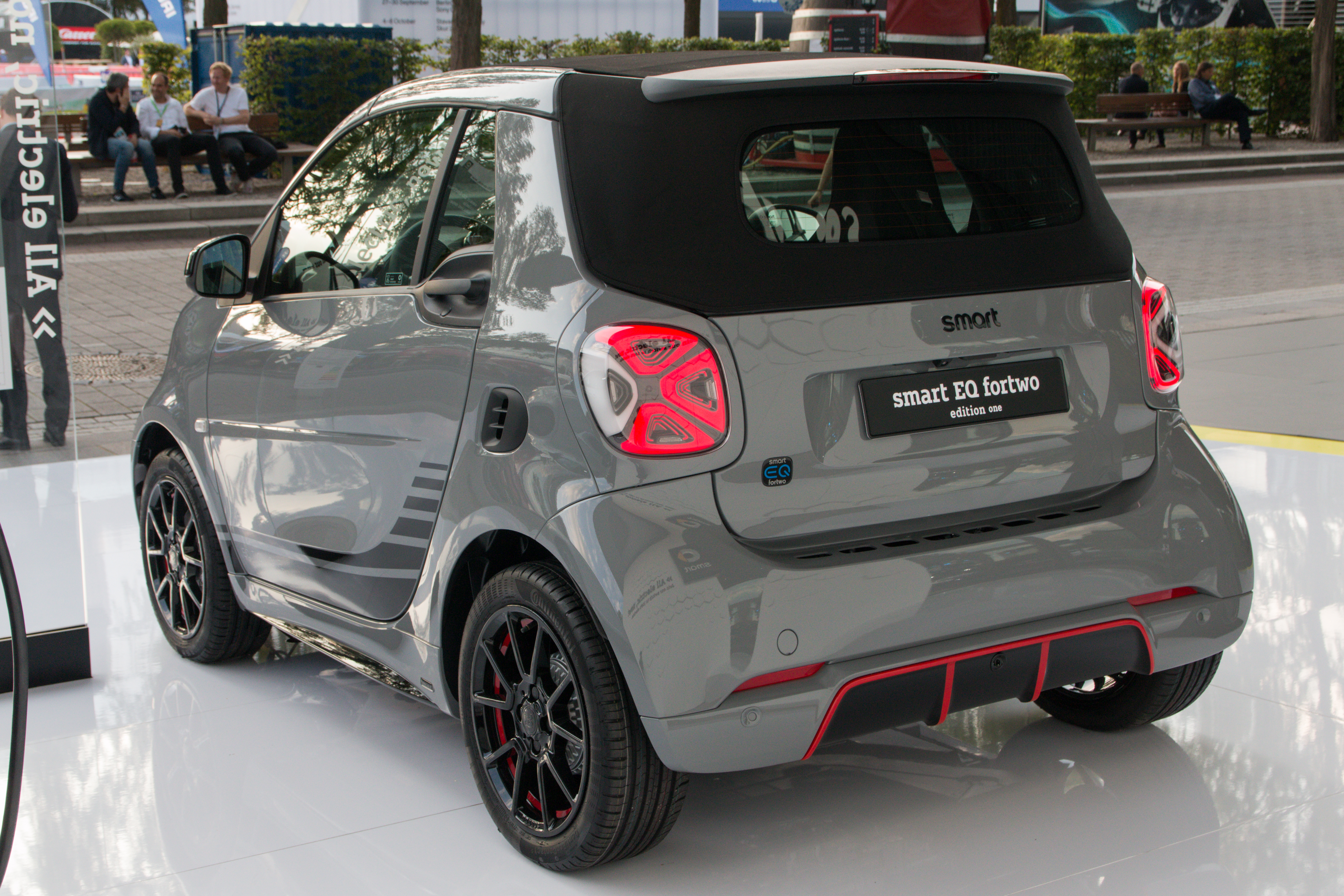 Smart Fortwo 453